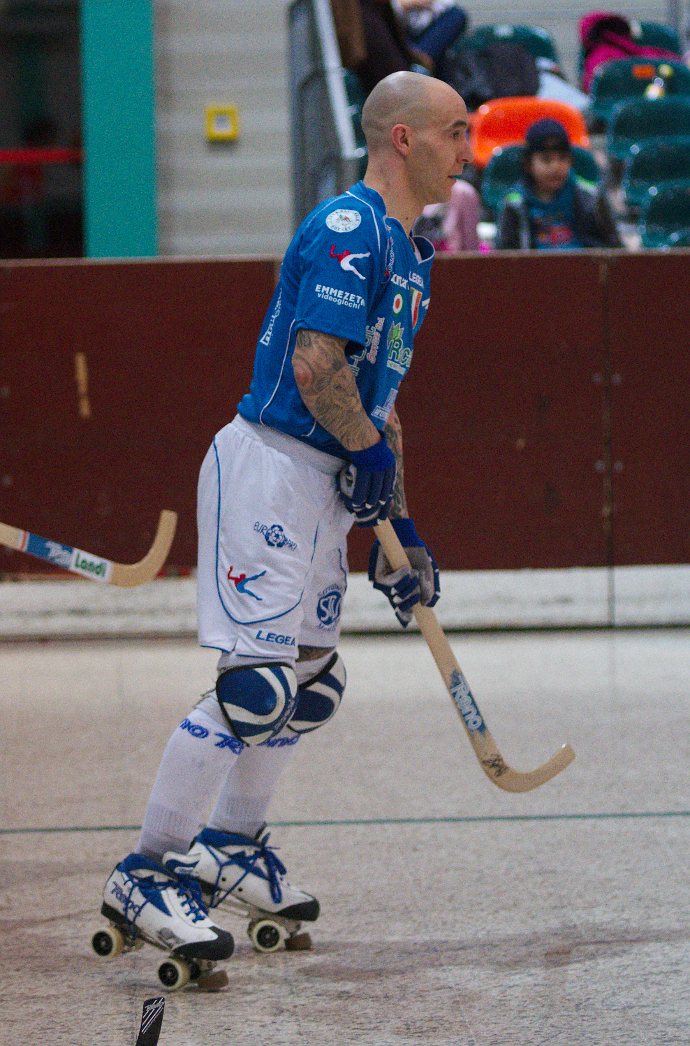 Rink-Hockey Euroleague 2012-2013 - Genève vs Hockey Valdagno